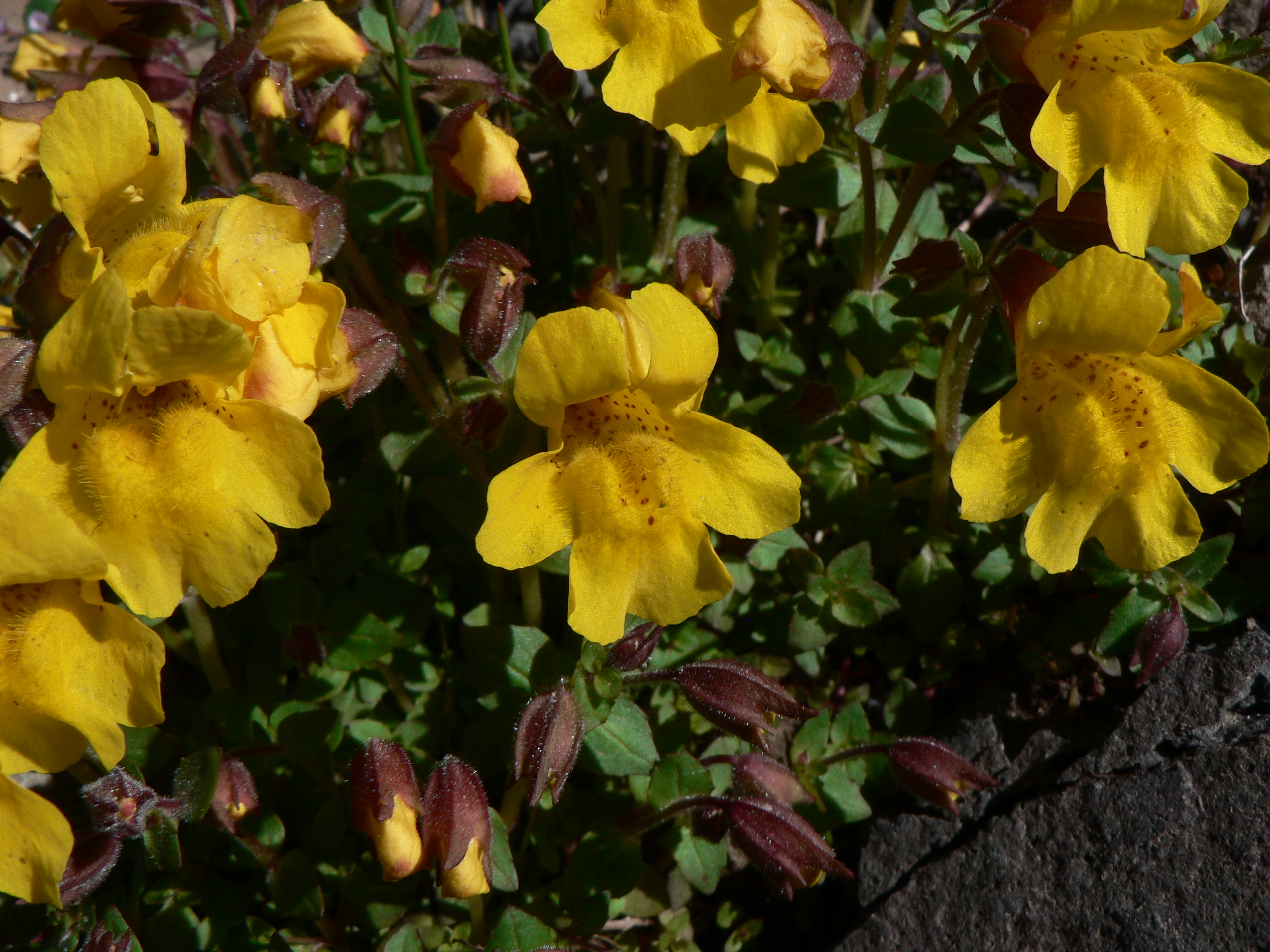 Tiling's Monkey-flower